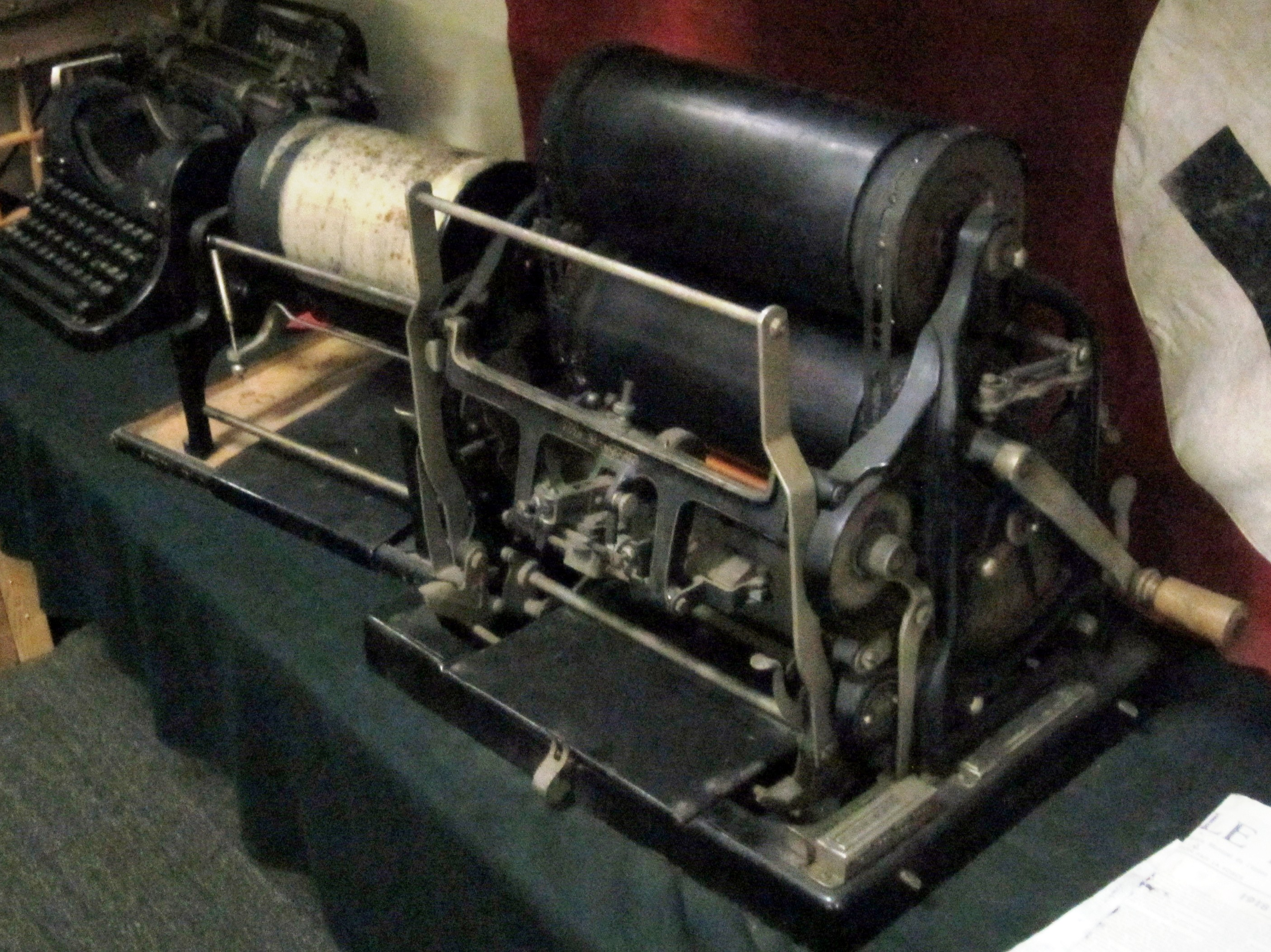 Machines used by the Belgian resistance for producing underground newspapers and pamphlets. At the National Museum of the Resistance, Anderlecht.